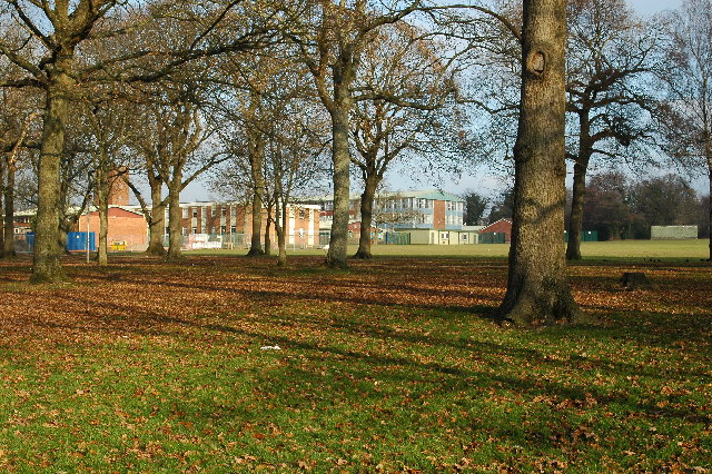 View of Croesyceiliog Comprehensive School from the south.